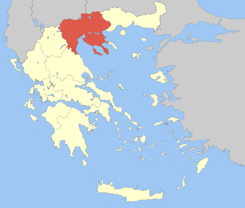 Locator Map of Central Makedonia Periphery, Greece